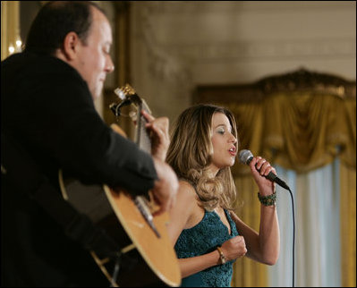 Singer Ana Cristina and guitarist Marco Linares perform on stage Friday, Oct. 6, 2006, in the East Room of the White House, in celebration of National Hispanic Heritage Month.